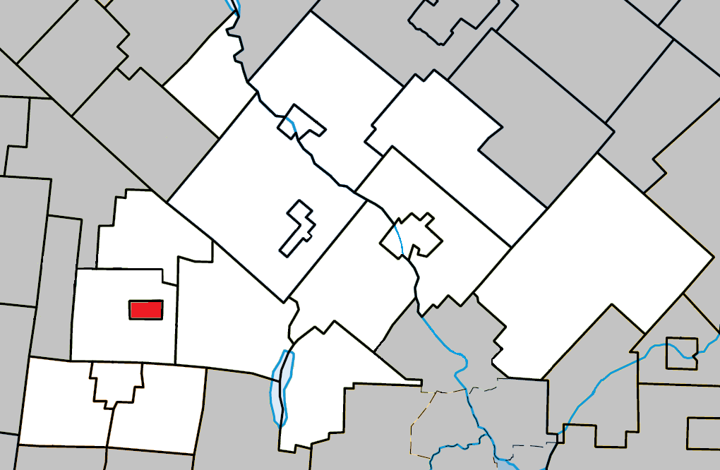 Location of Valcourt (City), Quebec within Le Val-Saint-François Regional County Municipality